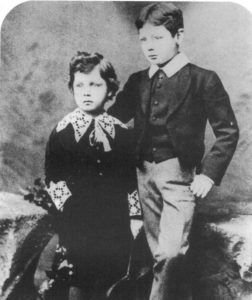 Churchill and his brother Jack as kids